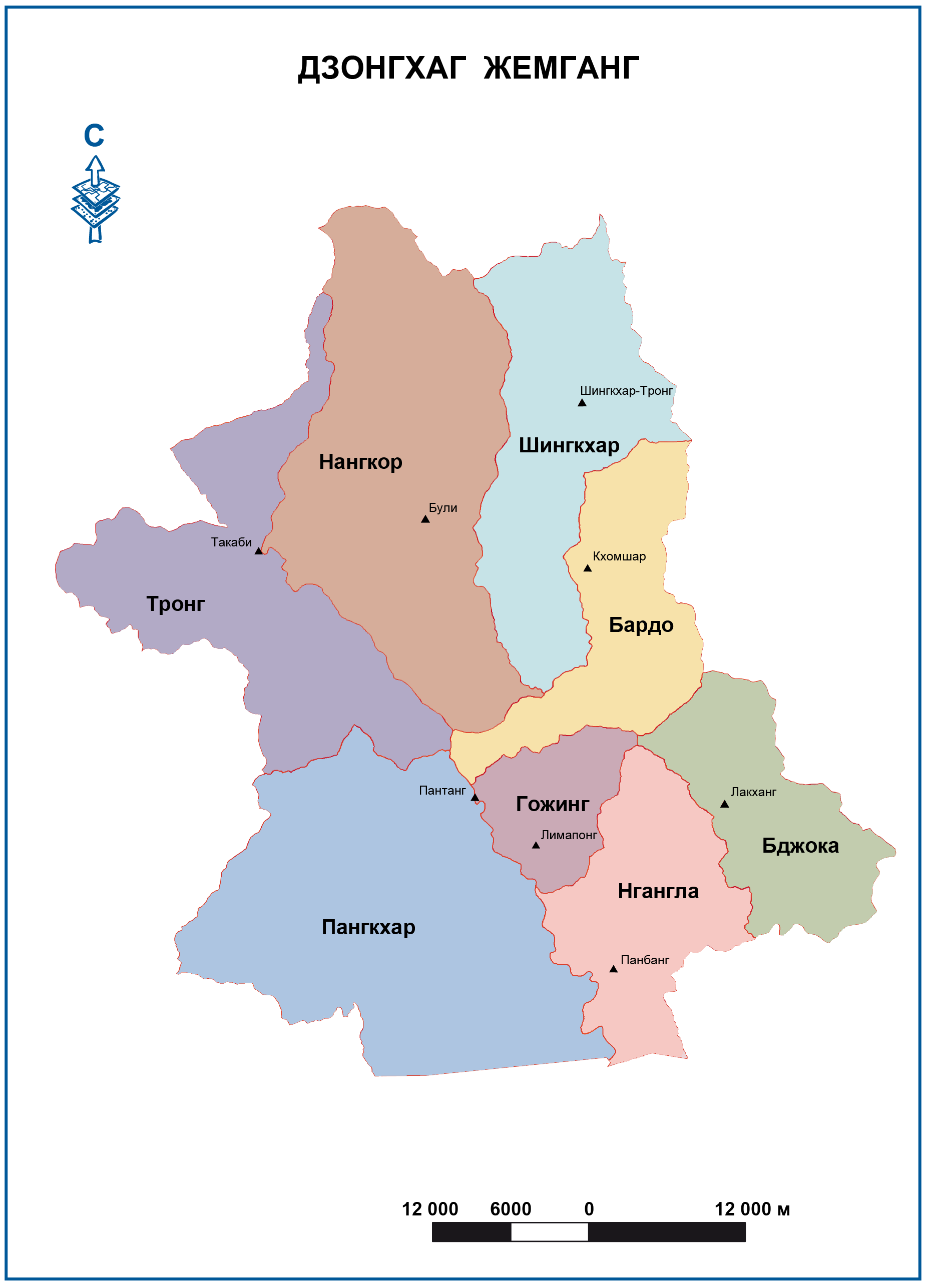 Zhemgang District map, Bhutan, 2011